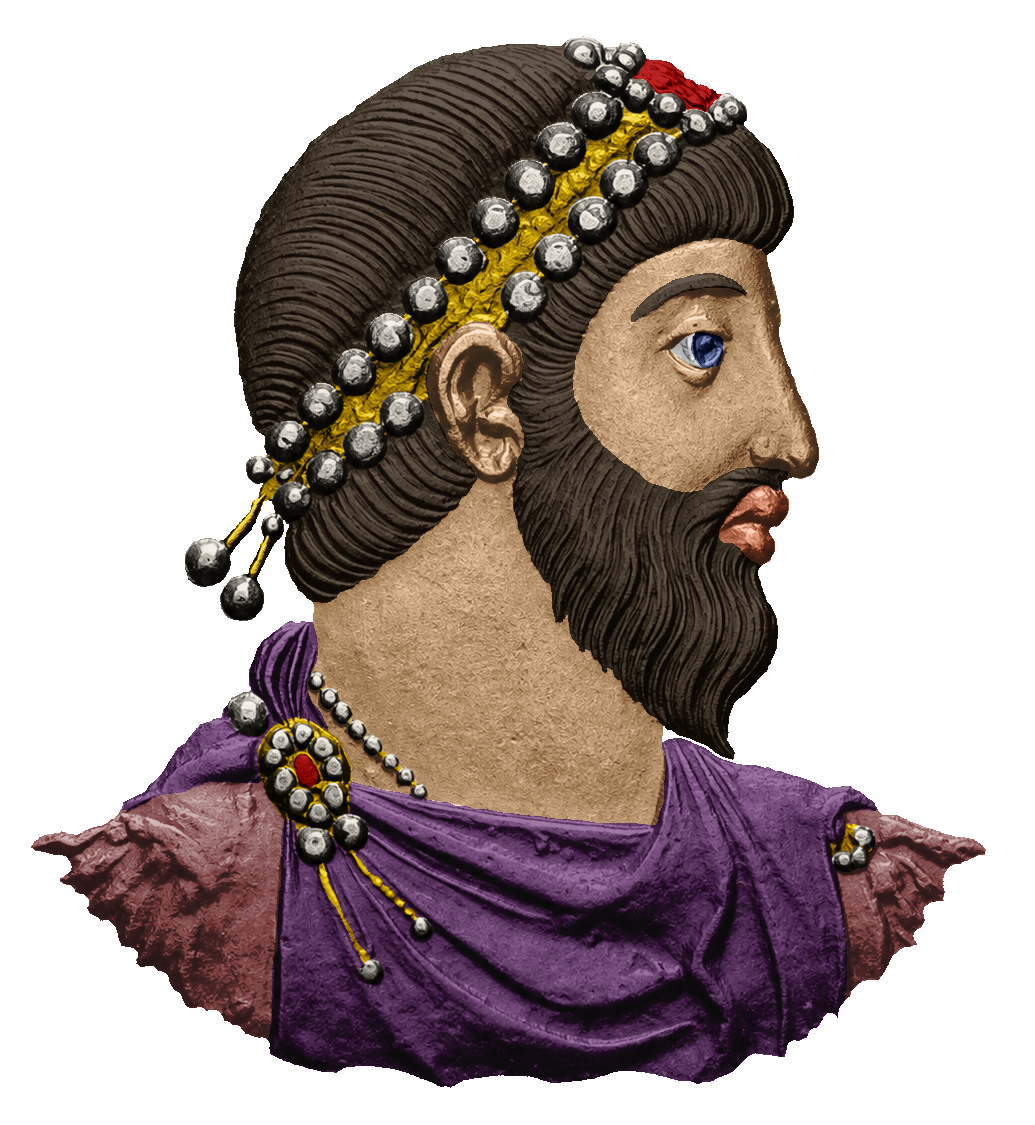 IMPERATOR - imperatorDOMINVS·NOSTER - our lordFLAVIVS·CLAVDIVS·IVLIANVS - Flavius Claudius JulianusNOBILISSIMVS·CAESAR - the most noble CaesarPERPETVVS·AVGVSTVS - perpetual Augustus Description: Portret van Julianus Apostata op bronzen munt van Antiochië, 360-363. Foto met toestemming van Classical Numismatic Group, Inc. (CNG) *Source: Dutch Wikipedia, original upload 13 apr 2004 by CharlesS